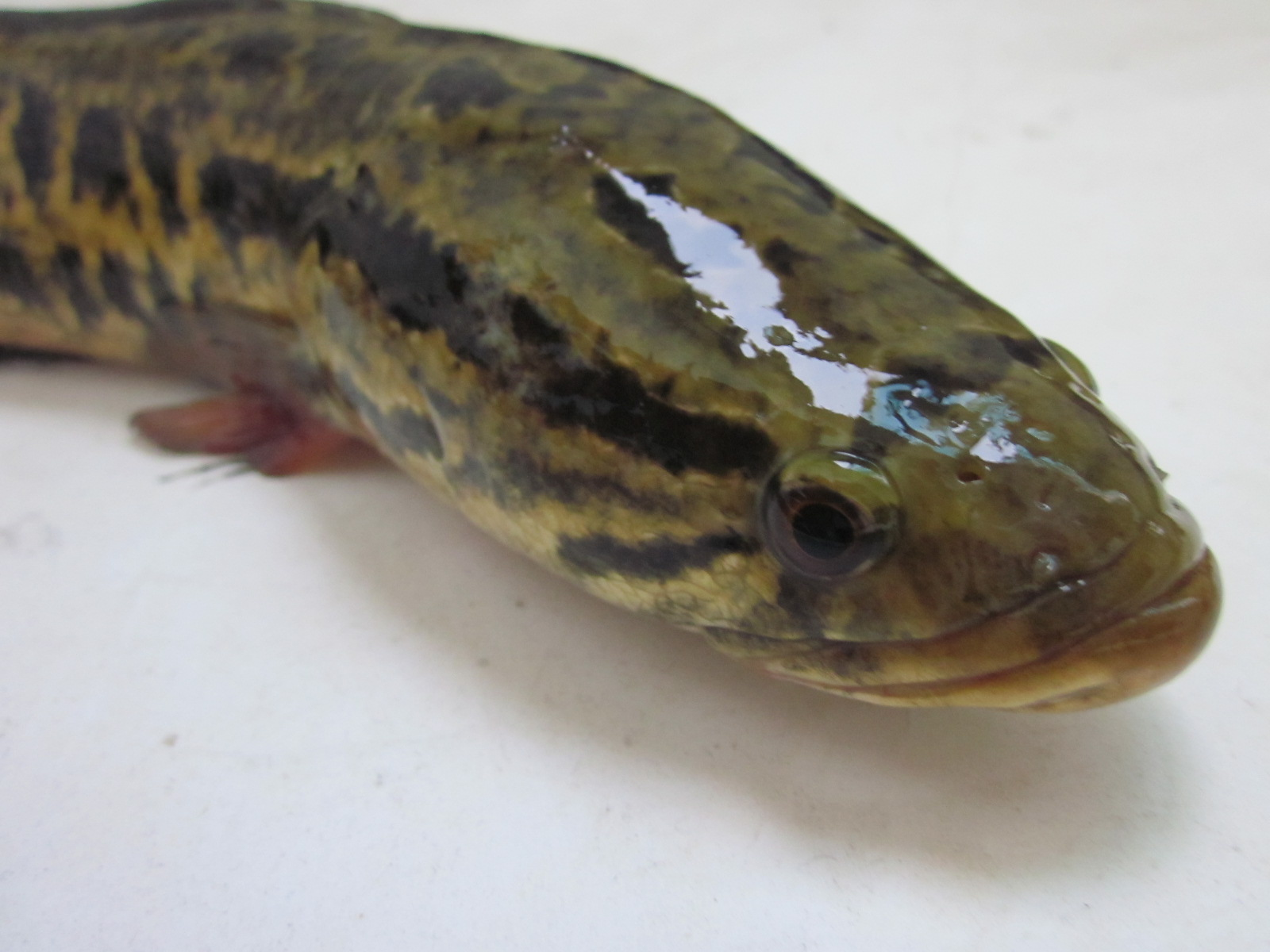 Channa argus